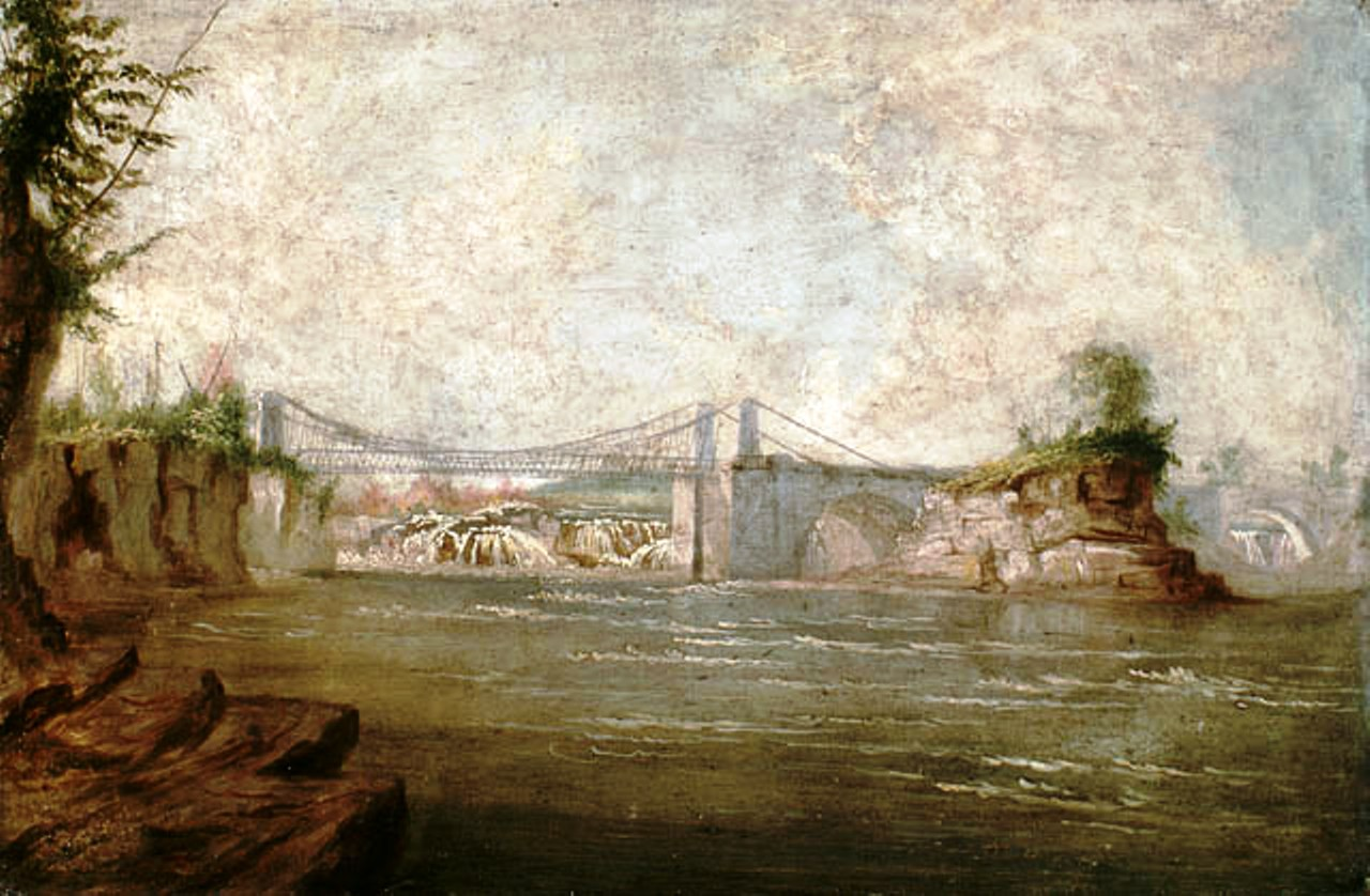 Suspension Bridge over the Ottawa River at Chaudière Falls, Ottawa, Ontario, Canada.